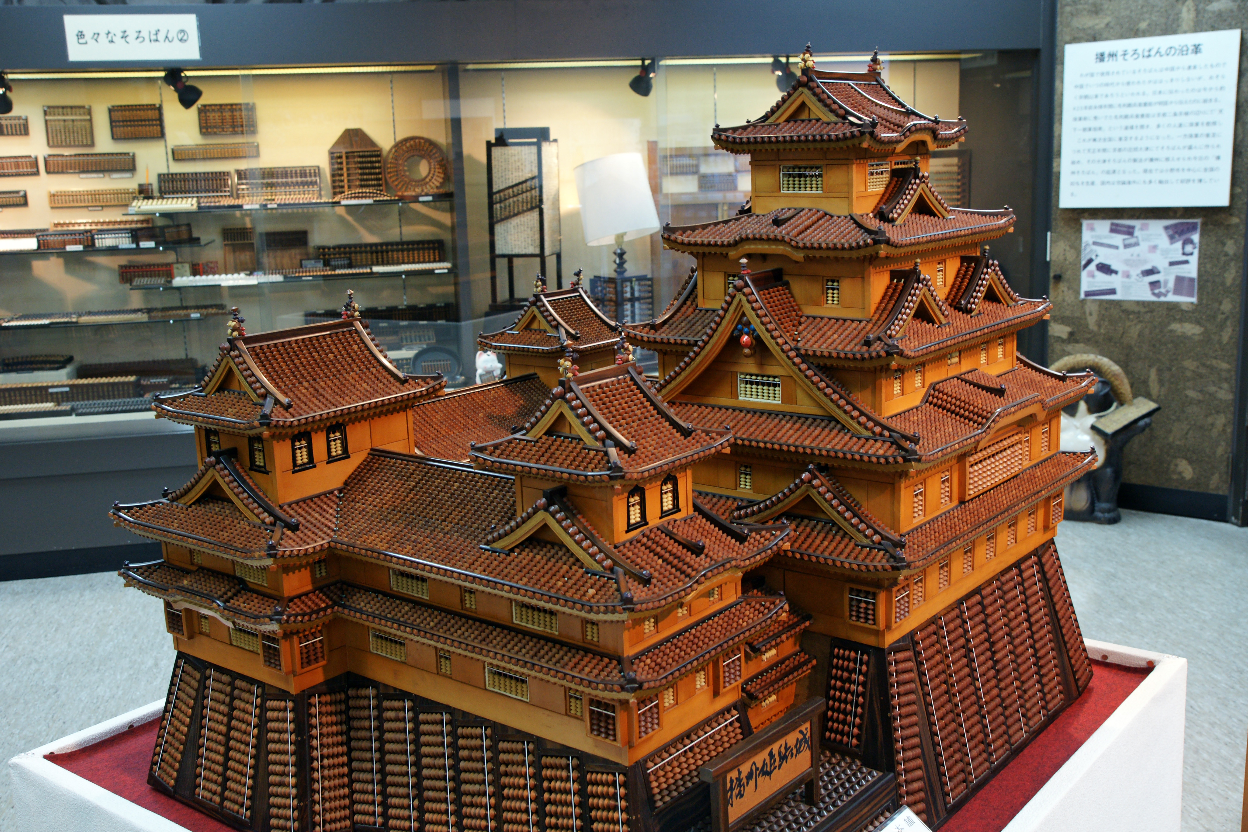 Ono City Tradition Industrial Hall in Ono, Hyogo prefecture, Japan.